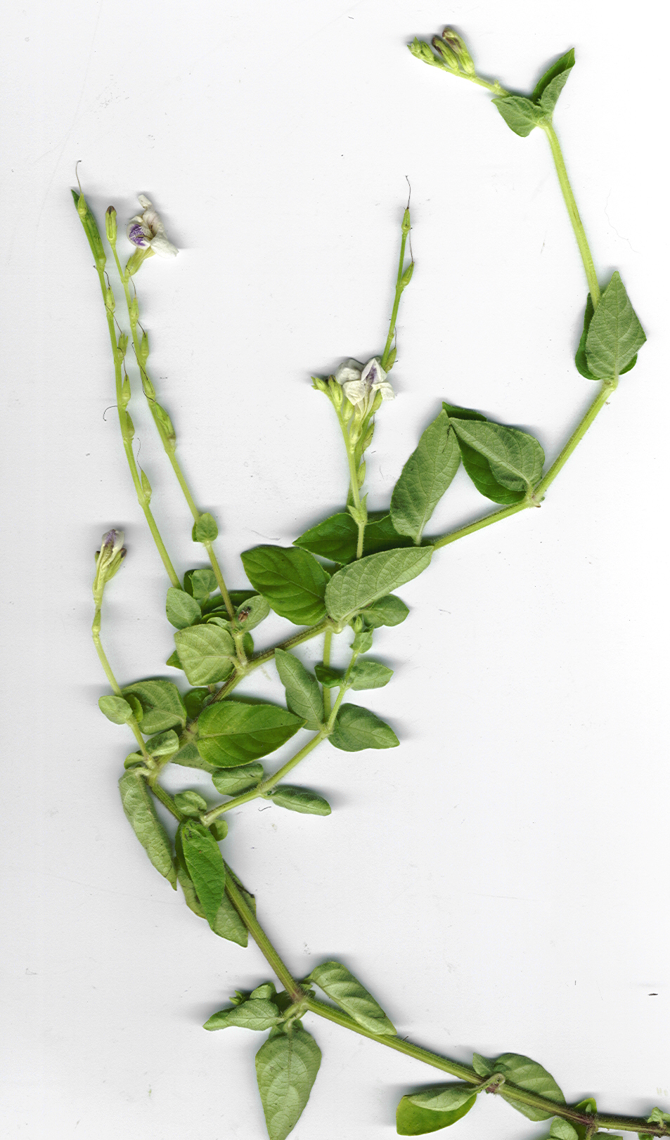 Asystasia sp. (branch). Location: Hawaii, Hilo